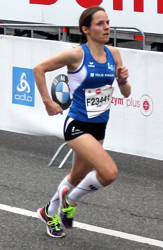 2015 Cologne Marathon – Anja Scherl